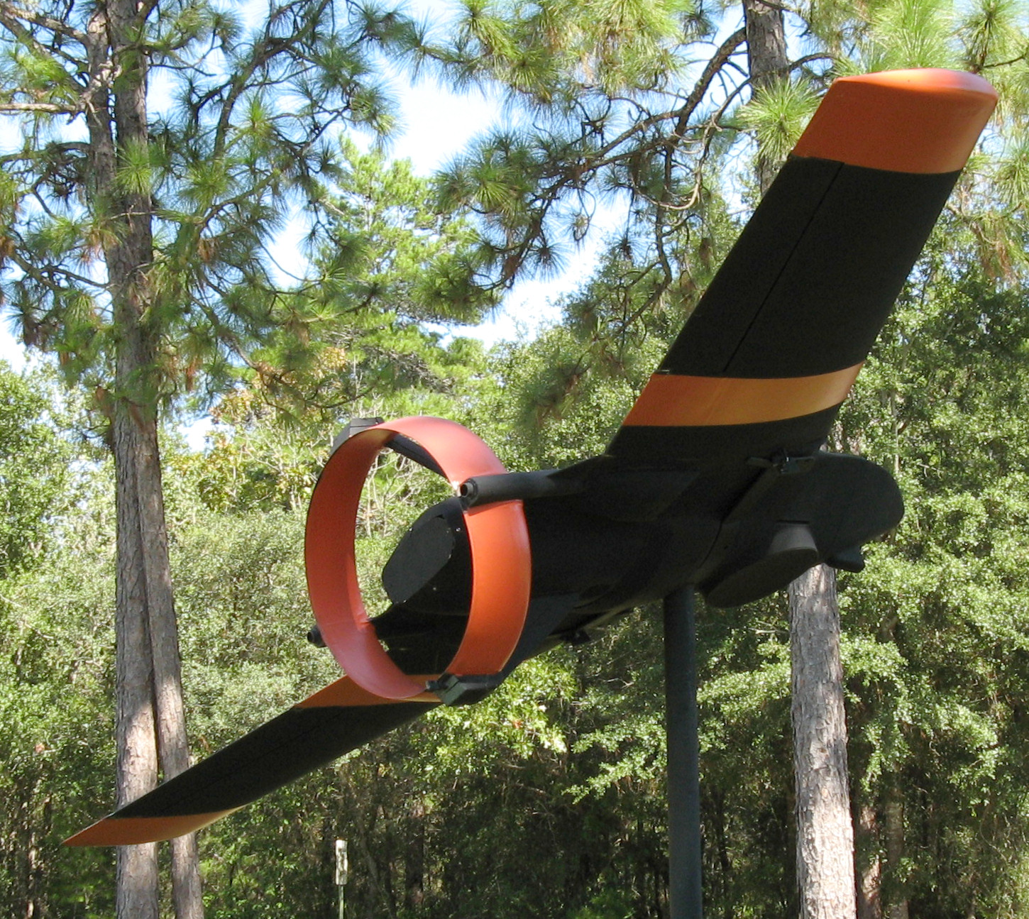 MQM-105 Aquila ("Altair") recon drone at the USAF Armaments Museum, Eglin AFB, Florida.